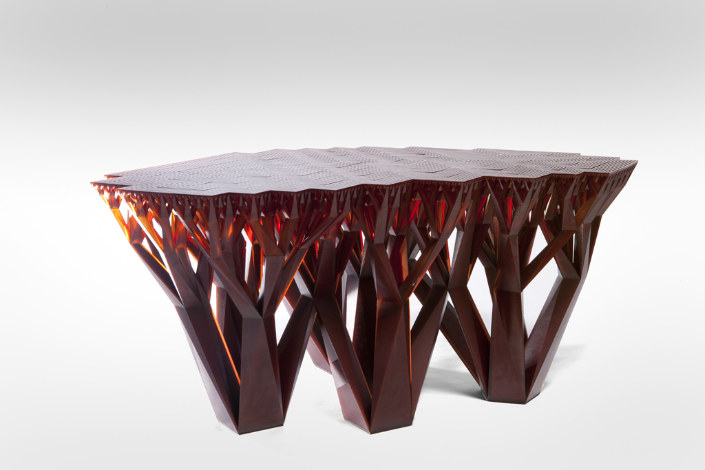 Fractal table of the collection of Disseny Hub Barcelona. Artists: WertelOberfell and Mathias Bär